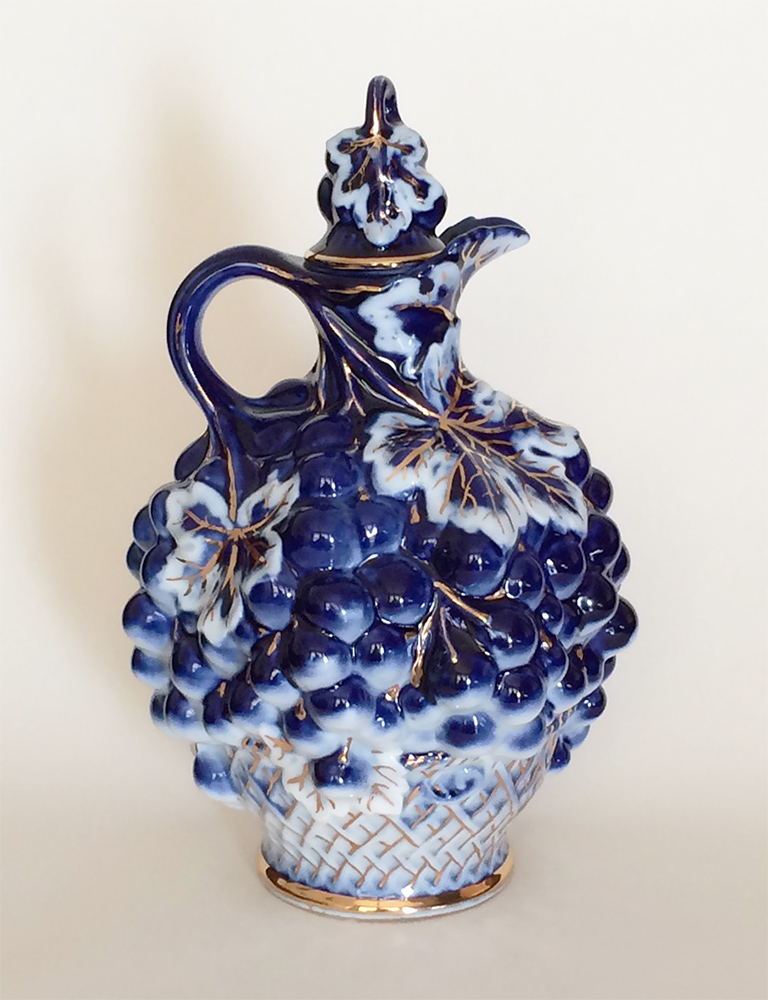 Wine pitcher «Grapes in the basket». Porcelain of the soviet sculptor Bronislav Bystrushkin (1926-1977). Lomonosov's Porcelain Factory, Leningrad, USSR.